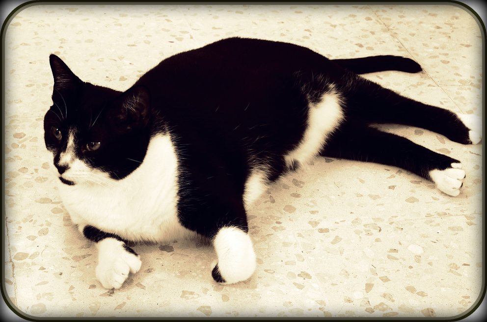 My cat, Conchi, who is a domestic true polydactyl cat.